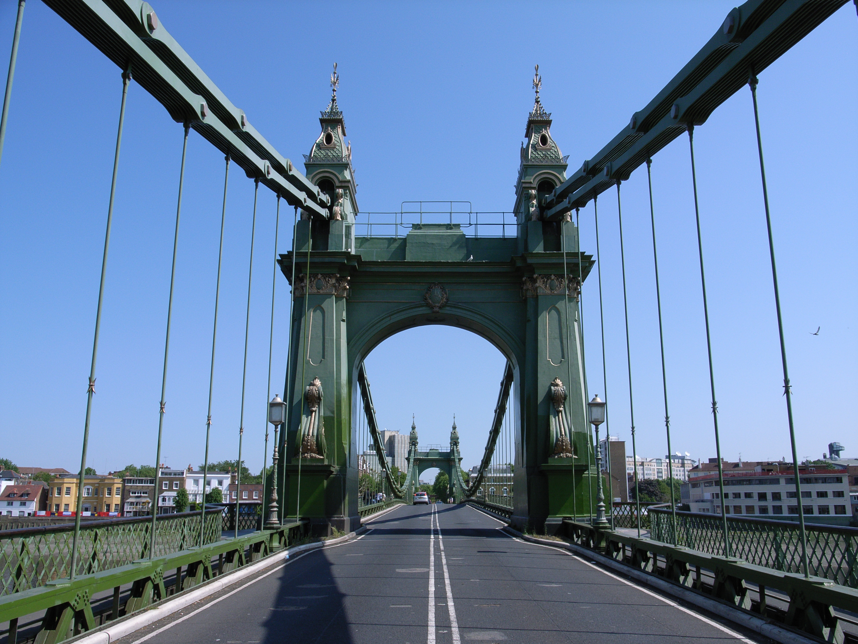 Hammersmith Bridge (1883-7) by Joseph Bazalgette